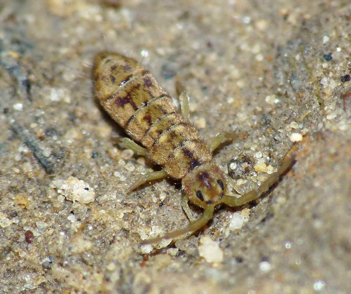 Isotomurusffffitfgu palustris, near Livorno, Tuscany, Italy